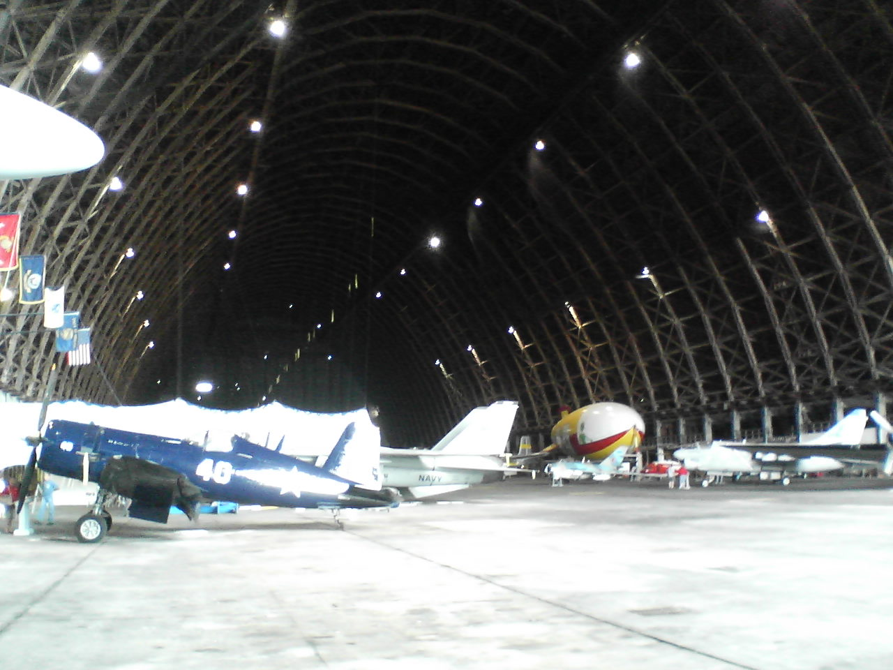 Interior photo of the exhibit area at the Tillamook Air Museum in Tillamook, Oregon, United States. The building is the dirigible hangar of the former Tillamook Naval Air Station, and is listed on the National Register of Historic Places.